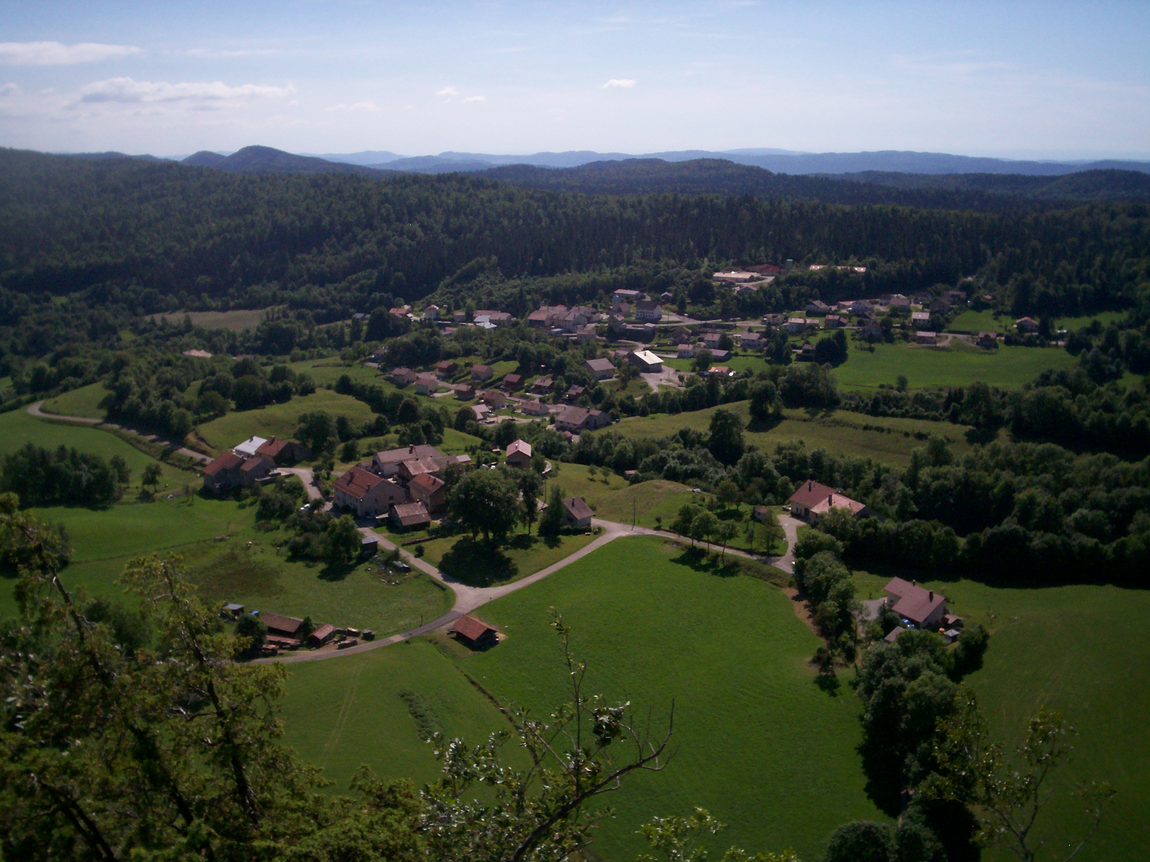 View on the village of Les Crozets from the point of view of mount Pelan (Jura, France).